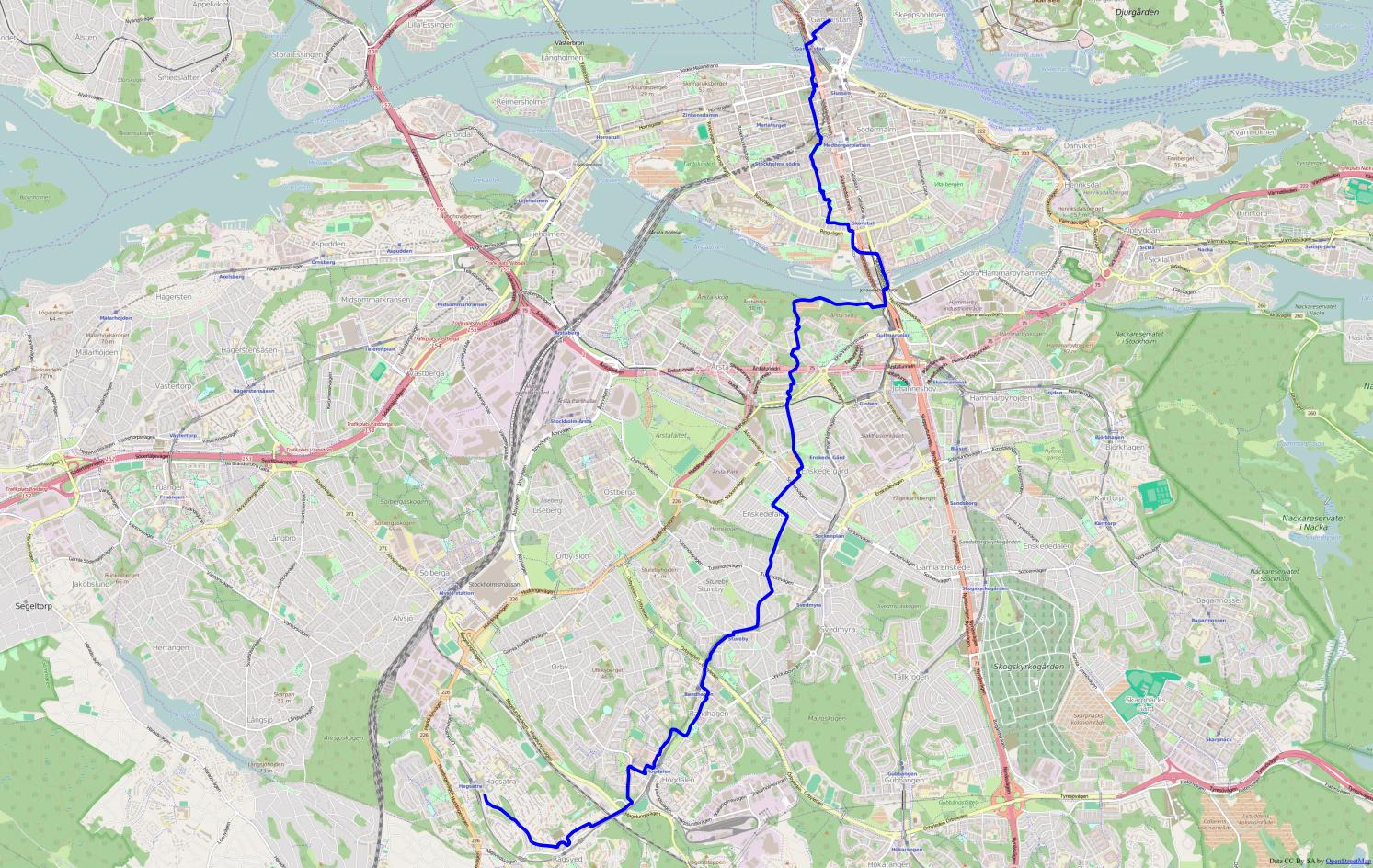 The Hagsätrastråket hiking trail in Stockholm, Sweden.